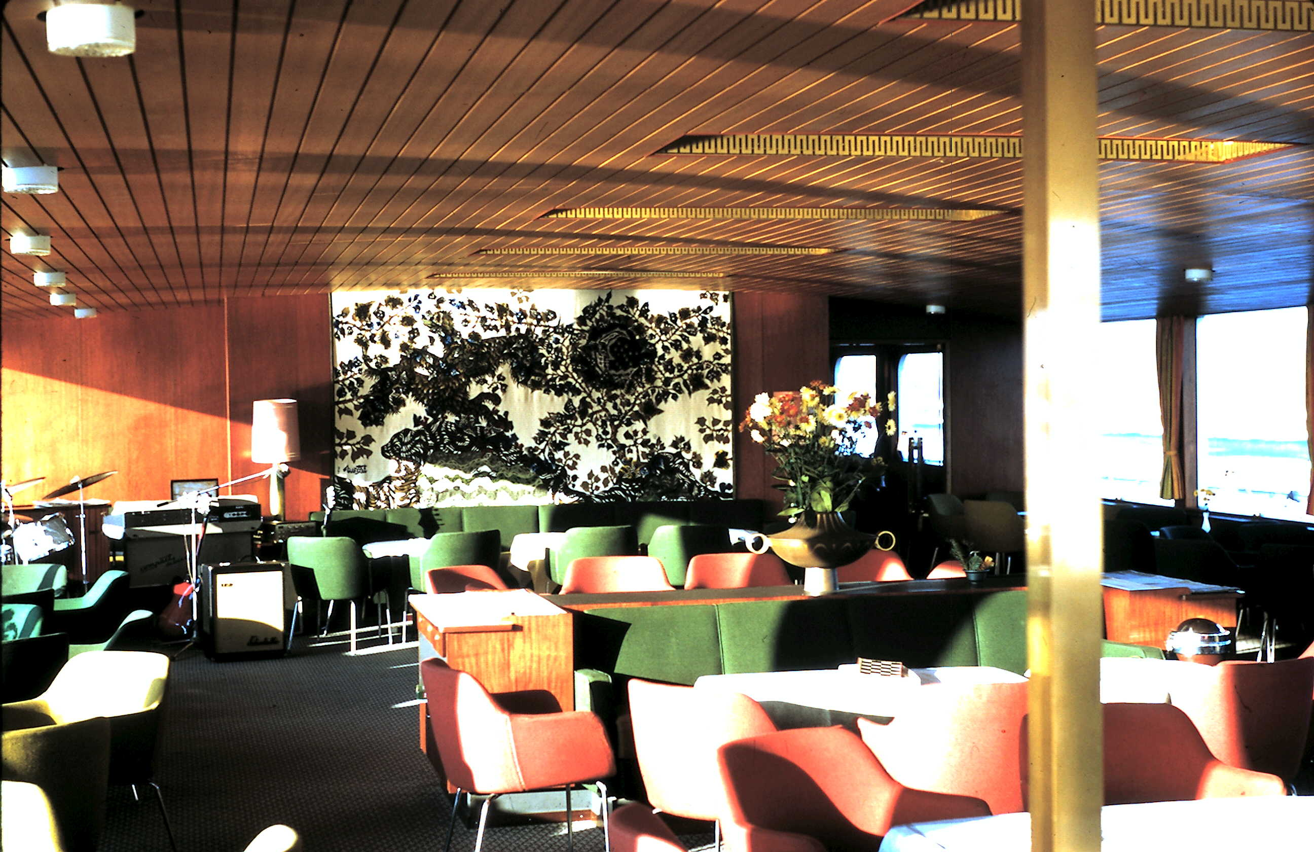 The lounge on MS Nederland (1967)